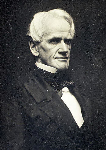 Horace Mann Daguerreotype by Southworth & Hawes